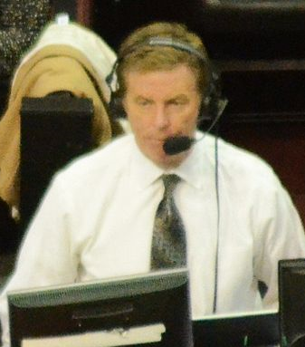 Longtime NBA announcer Fred McLeod